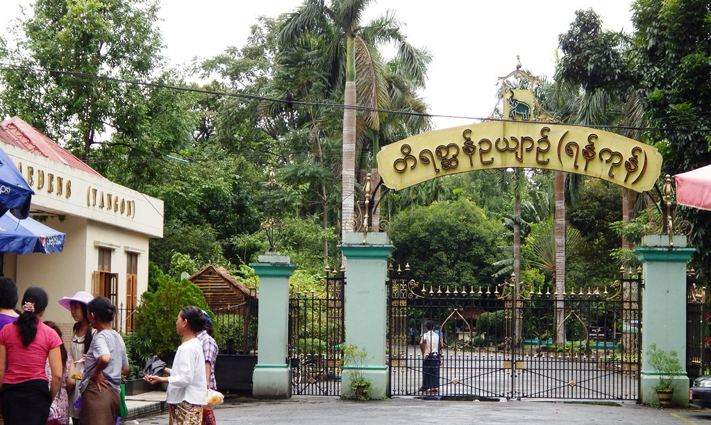 Yangon Zoological Gardens, Burma